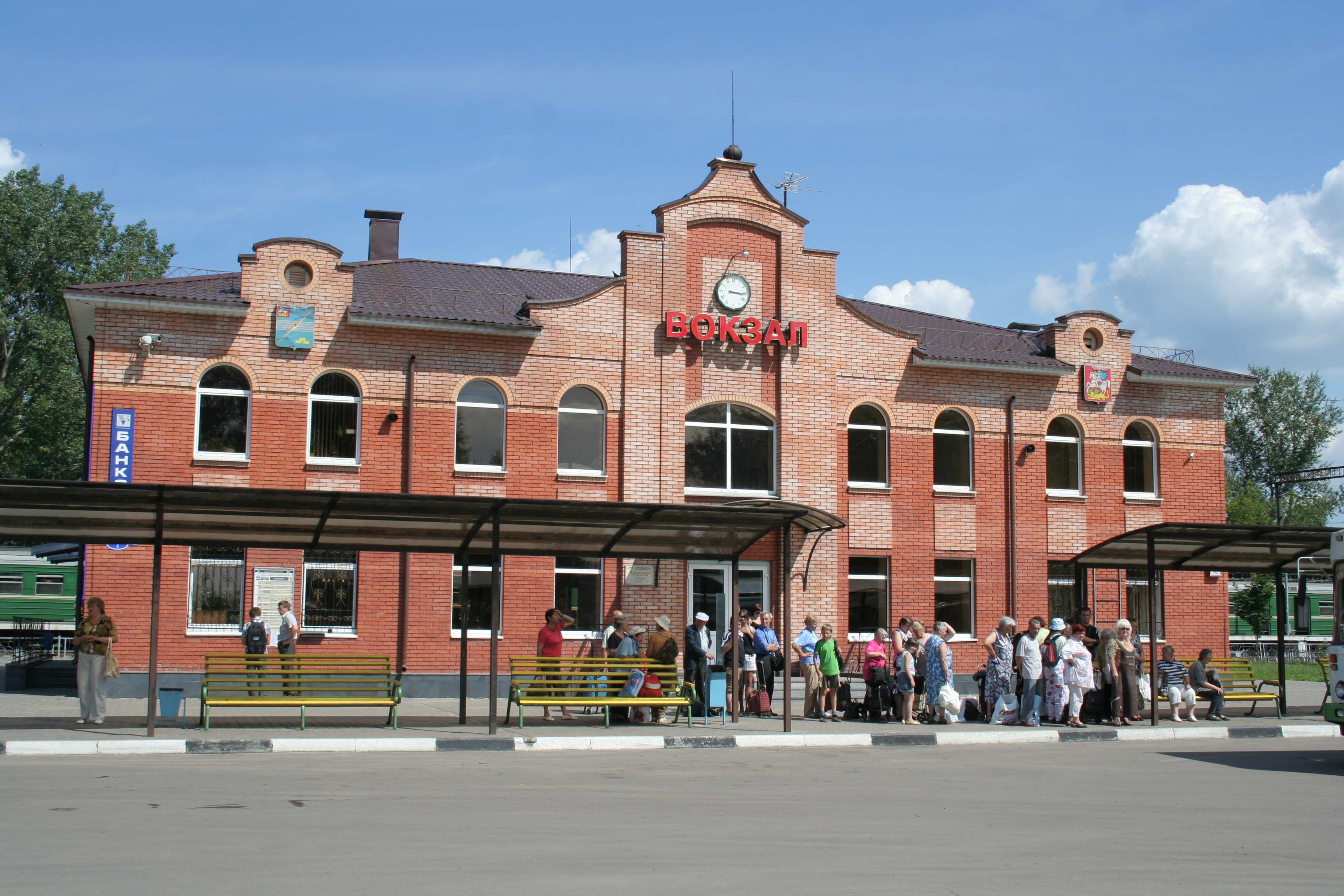 The train stations in Elektrogorsk, Russia